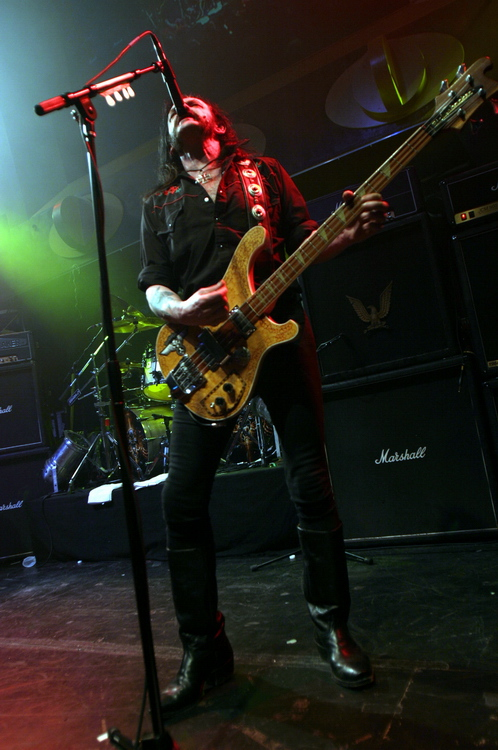 Motorhead Live at Reds, Edmonton, May, 2005